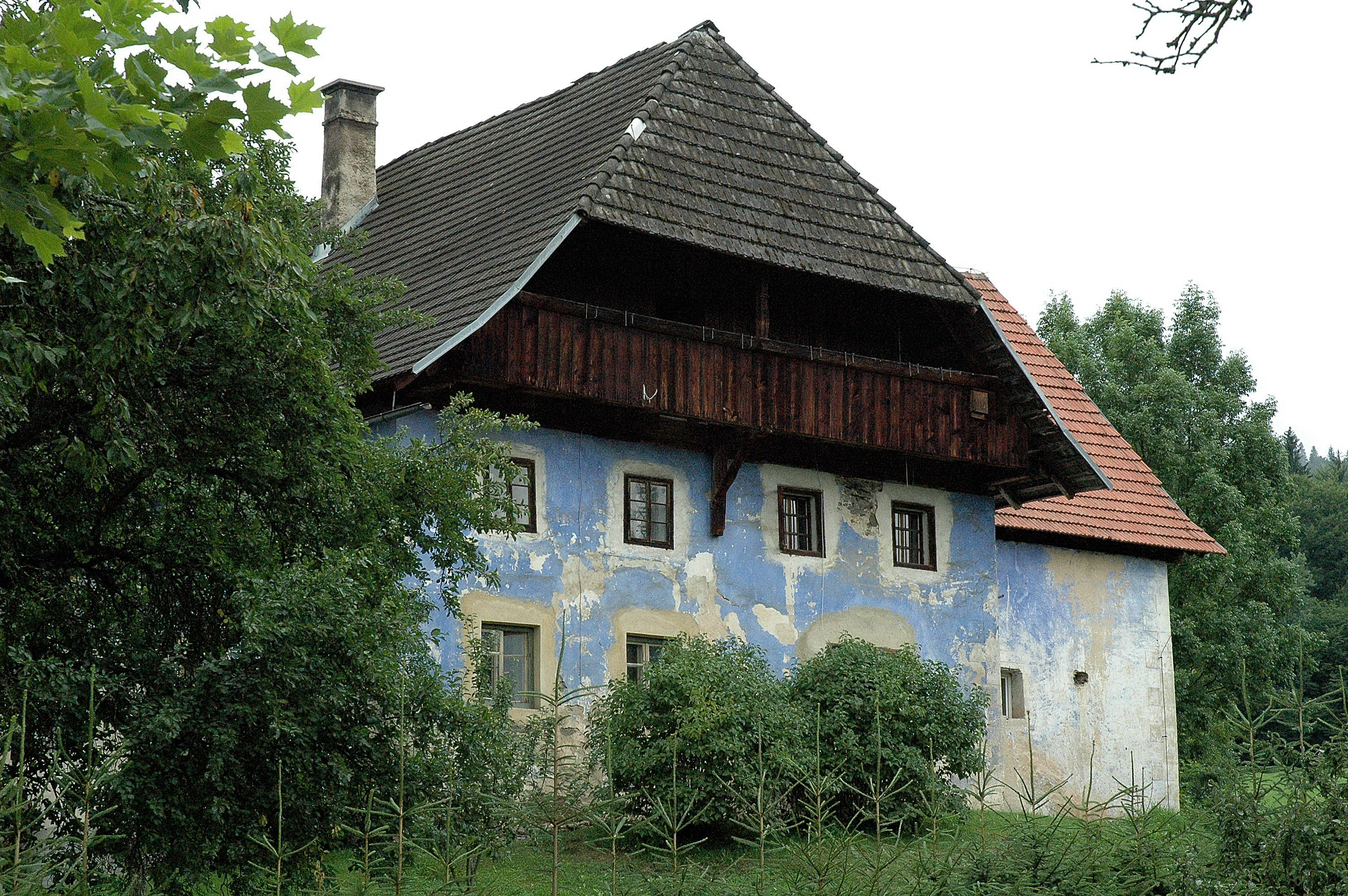 Residential building "vulgo WORNIG" in Sankt Margarethen #8, municipality Keutschach am See, district Klagenfurt Land, Carinthia, Austria, European Union